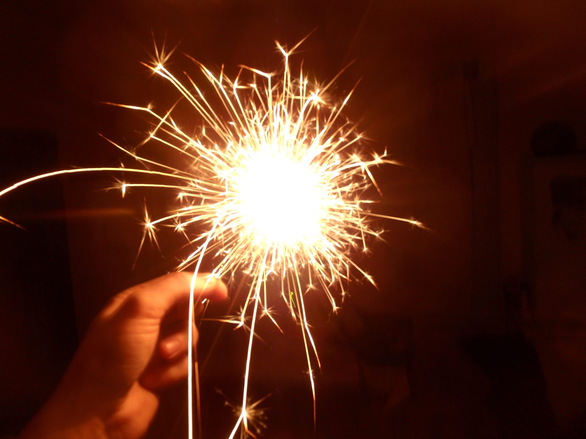 Sparkler